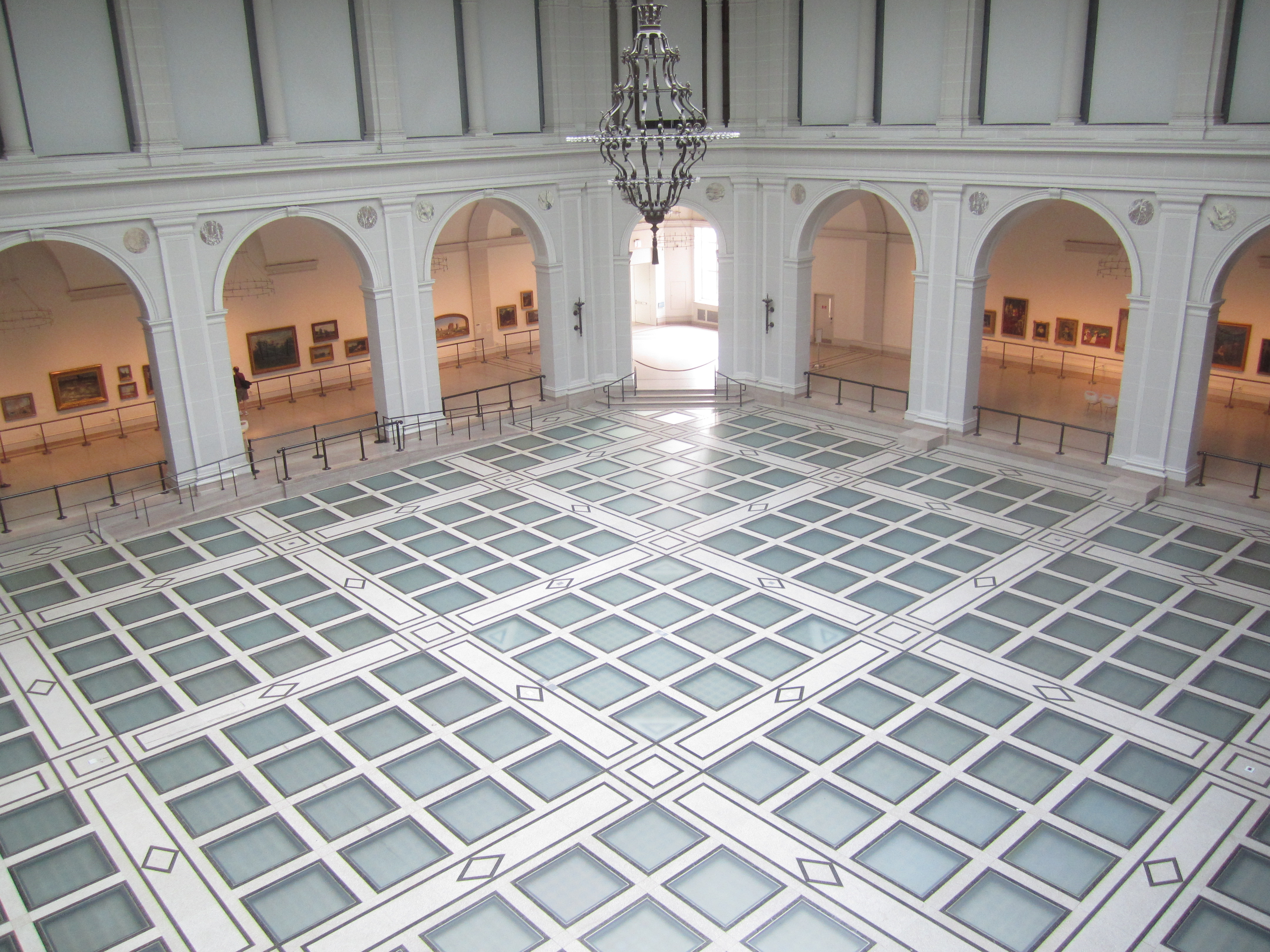 I took photo with Canon camera of inside gallery of Brooklyn Museum.